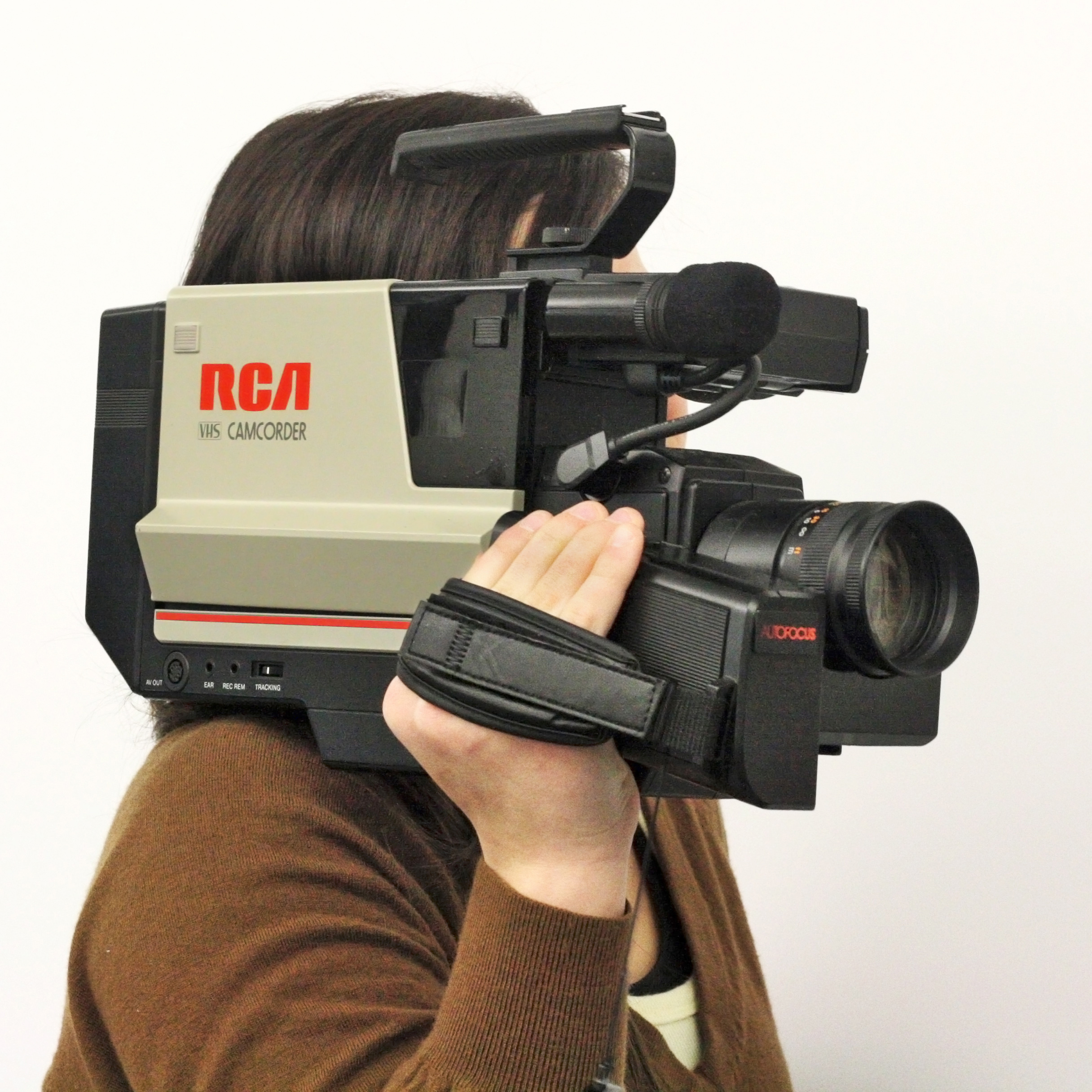 This is a picture of an old school shoulder-mount RCA Camcorder